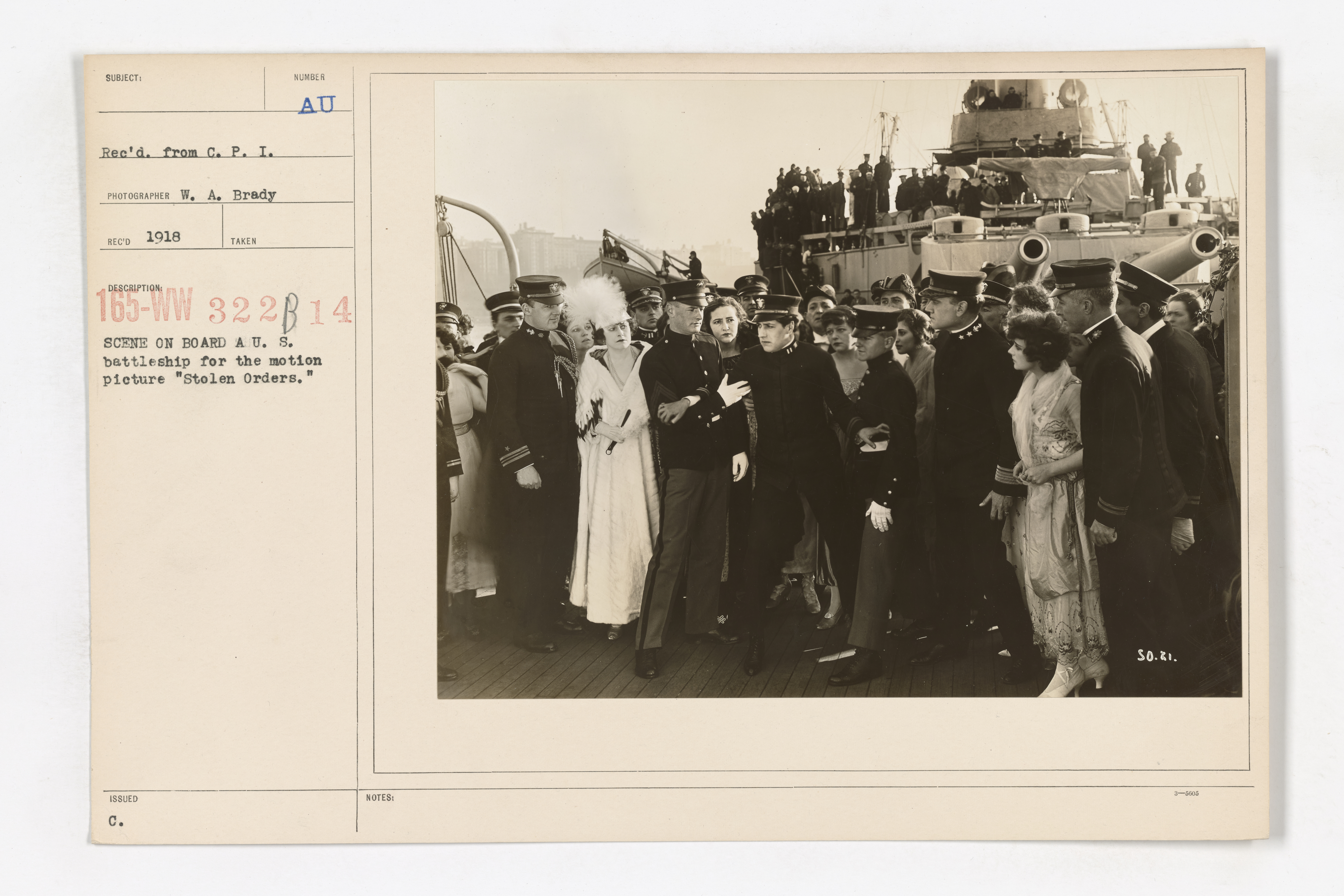 Scope and content: Photographer: W.A. Brady